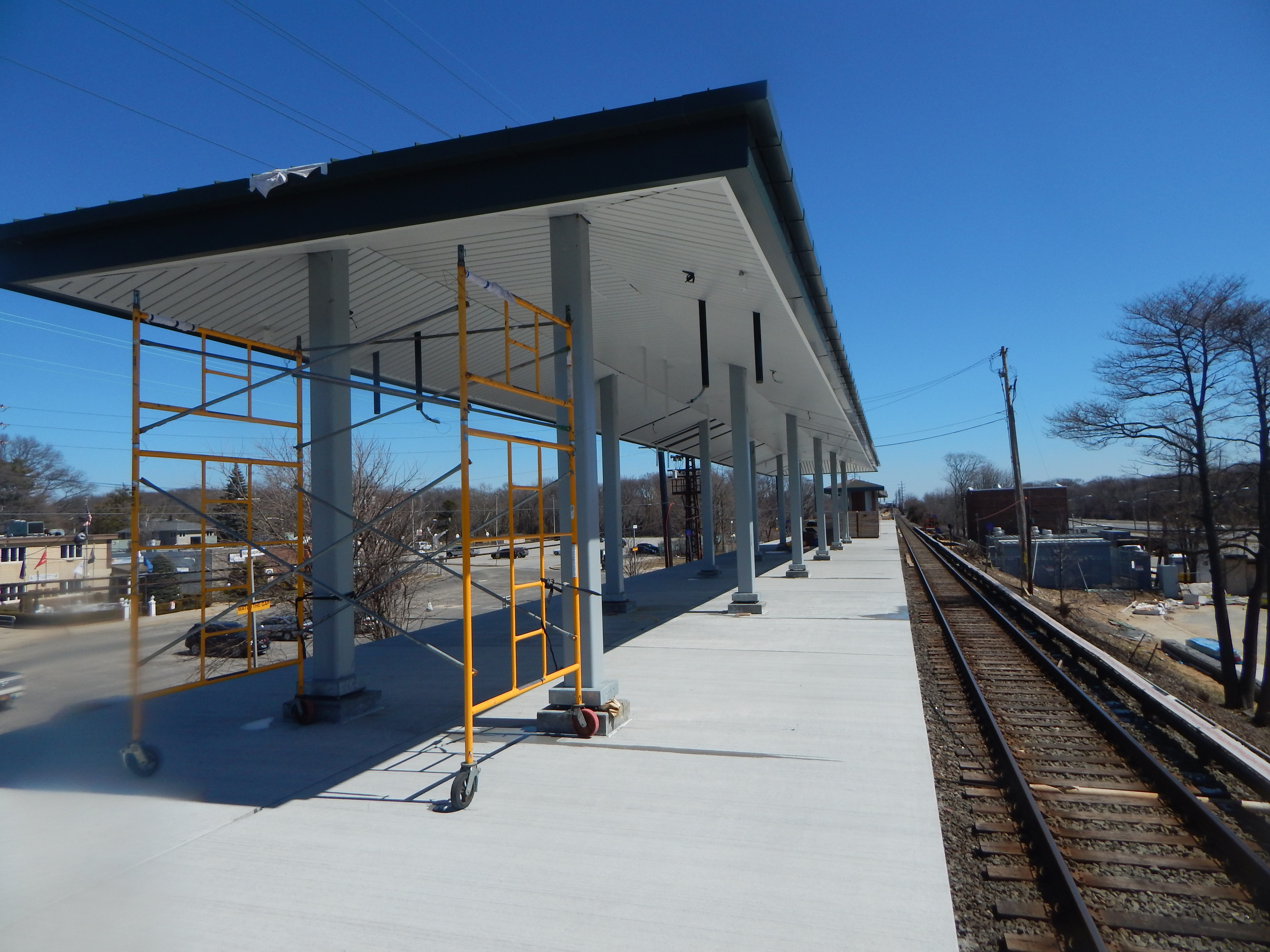 The new platform being constructed at Massapequa station in Massapequa, New York.